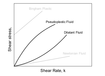 Non-Newtonian fluid